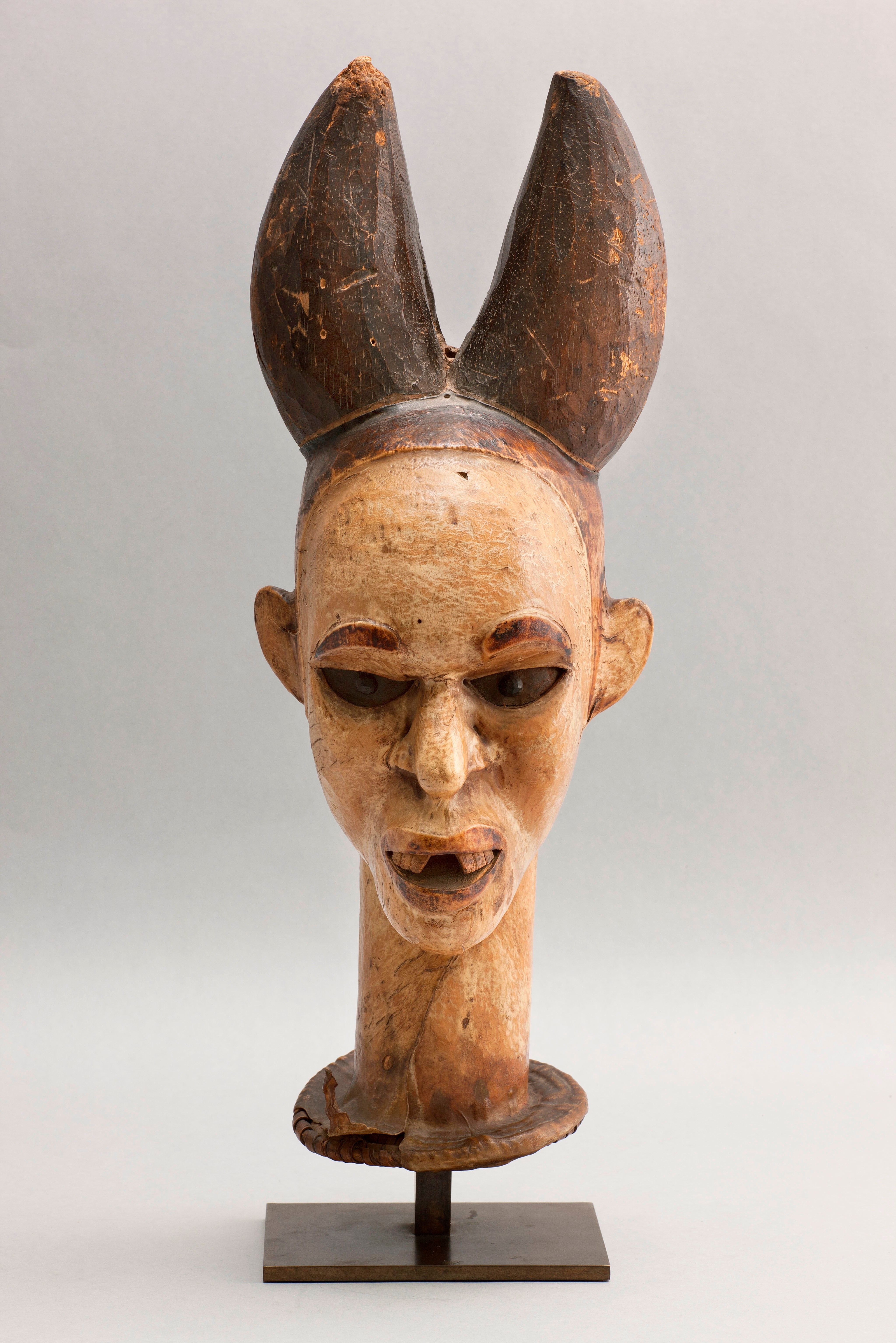 Crest mask. The wooden head is covered with animal skin and is on a base of woven fibers which serve as linkage with the costume. The realistic oval face is light colored, with red lips and eyebrows. The mouth is open showing the teeth. On the top two black-dyed horns. The Ngbe society, among the Ejagham of the Cross River, is a secret society of warriors holding commercial and political functions. The membership is built around a set of shared symbols, including masks. Usually masks are covered with antelope skin but there are also human skin masks, therefore the scholar Leo Frobenius assumed that warriors originally did not wear a mask on their heads, but the head of a killed enemy. Thus the mask is interpreted as a form of appropriation of the power of the dead.